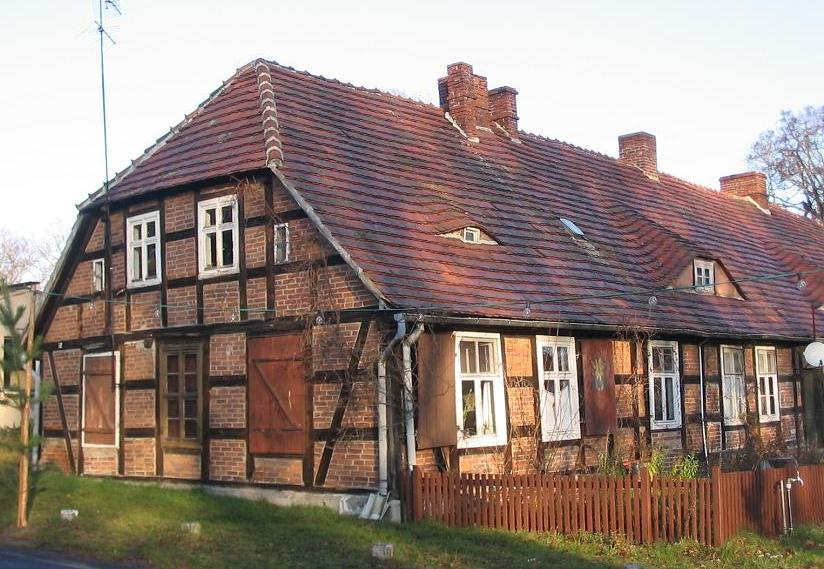 Blue-collar worker’s house, built in the 18th. century, in the open air museum Glashütte (german for „glassworks“). The village Glashütte is a part of the town Baruth in the district Teltow Fläming of the German state Brandenburg.